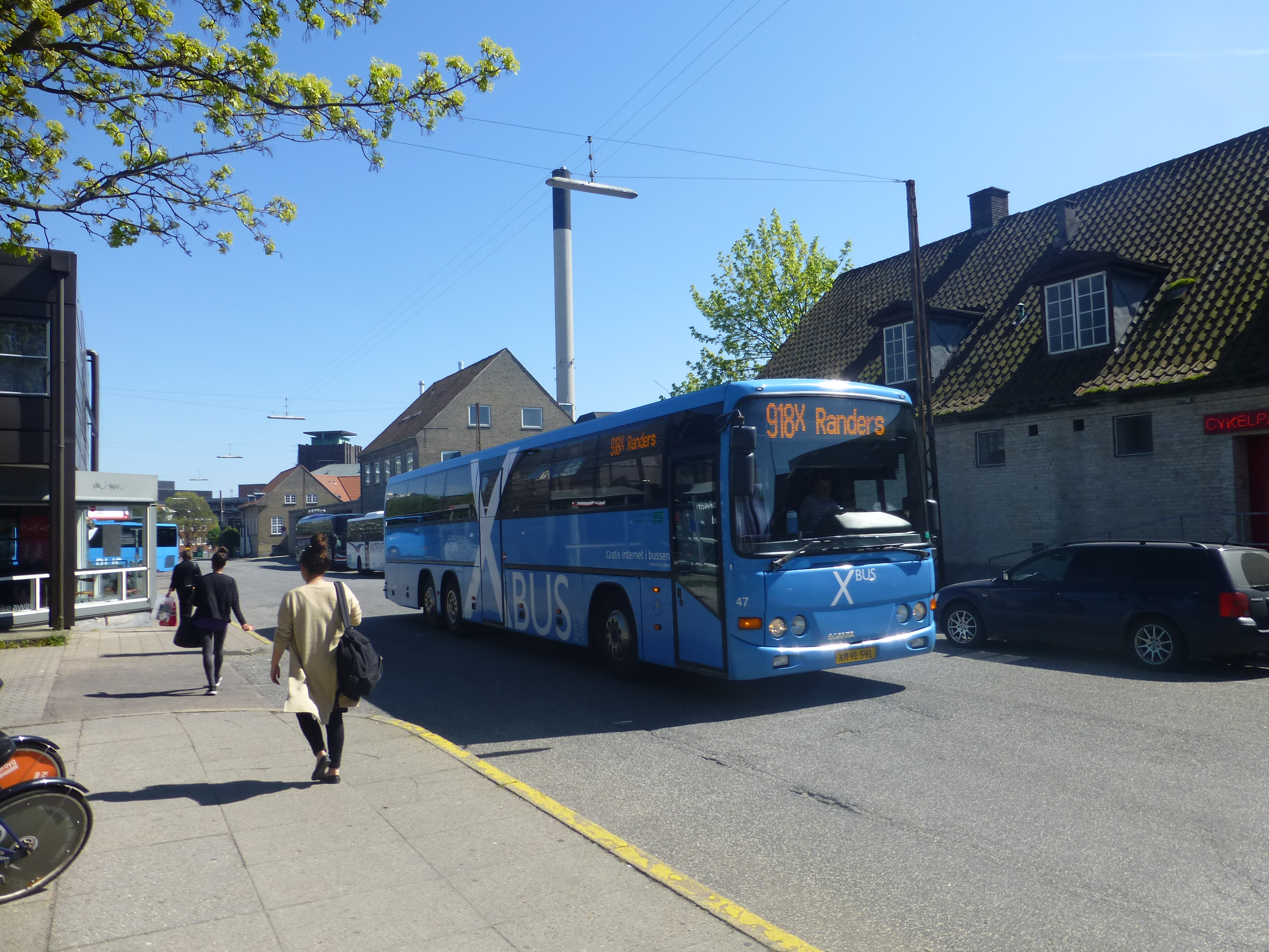 Xbus line 918X at the bus station Aarhus Rutebilstation in Denmark.